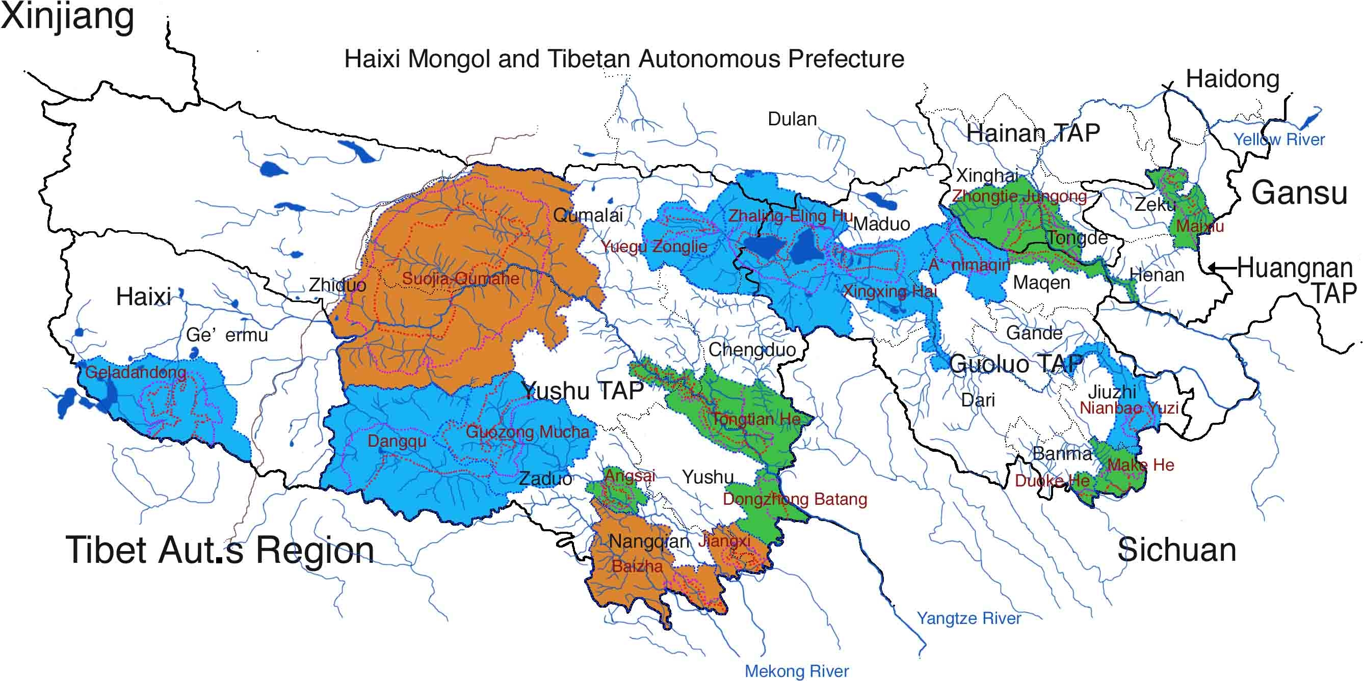 From File:SNNR Map.jpg, describing Sanjiangyuan National Nature Reserve, Qinghai, China, but embedded legend removed Wetland conservation Wildlife conservation Shrubland or forest conservation Buffer Zone - Core Zone - All residents resettled, no grazing, wildlife protected Buffer Zone - Partial resettlement, limited and rational grazing Experimental - Partial resettlement, eco-tourism and green industries